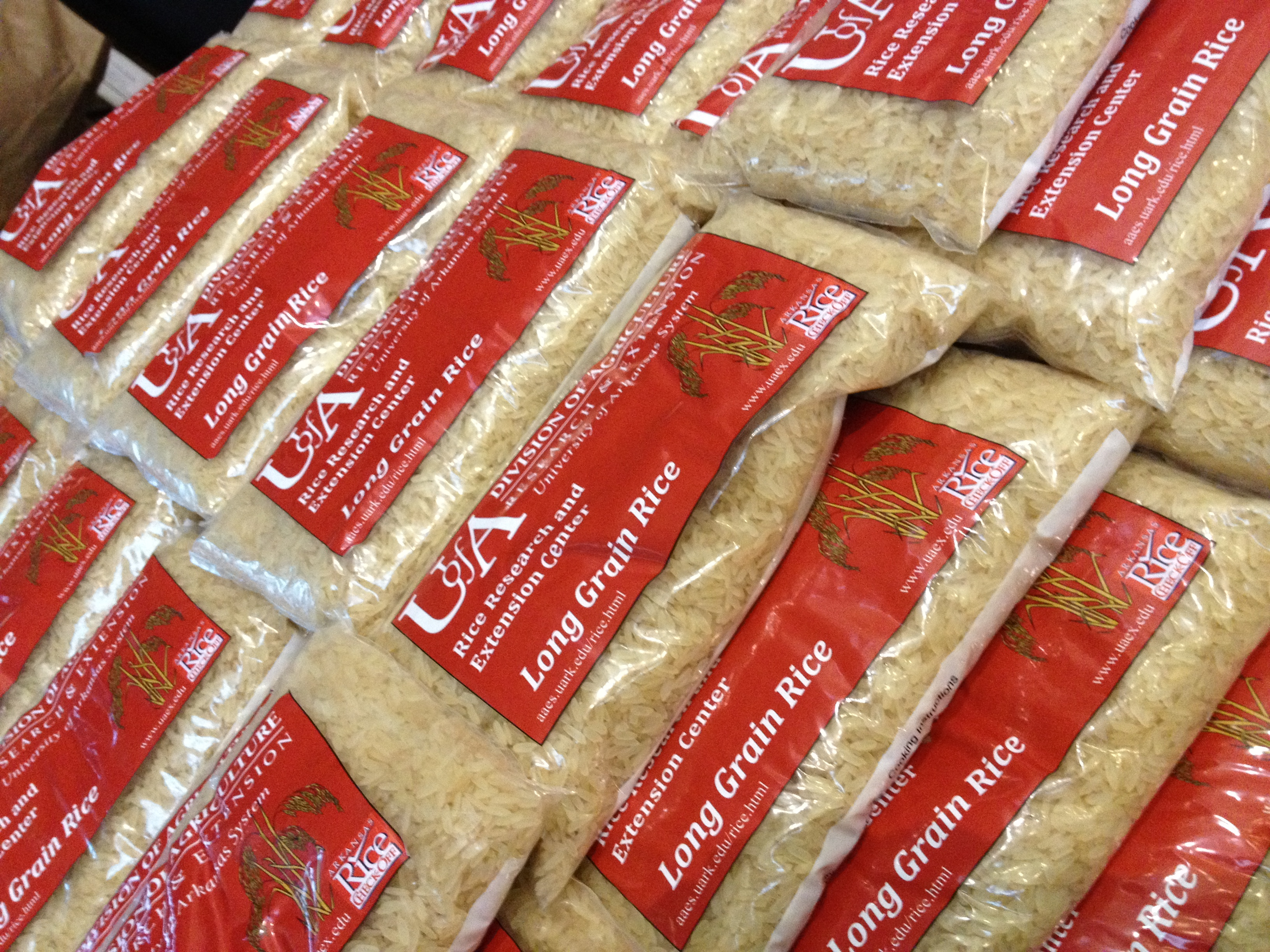 LOTS OF RICE -- Attendees at the 2013 Arkansas Rice Expo each received a souvenir bag of rice. (U of Arkansas System Division of Agriculture photo by Mary Hightower)